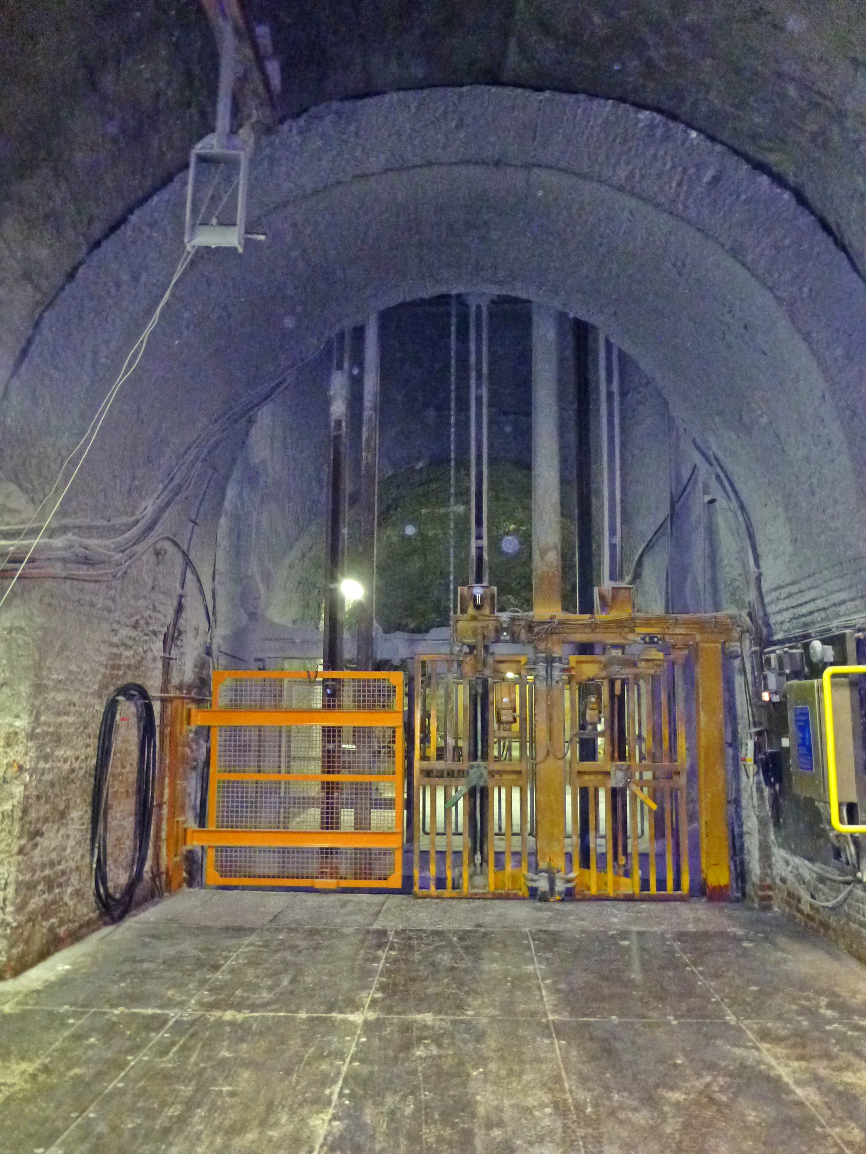 Filling station of the Steinsalzwerk Braunschweig-Lüneburg in 490 meter depth a salt mine in Grasleben